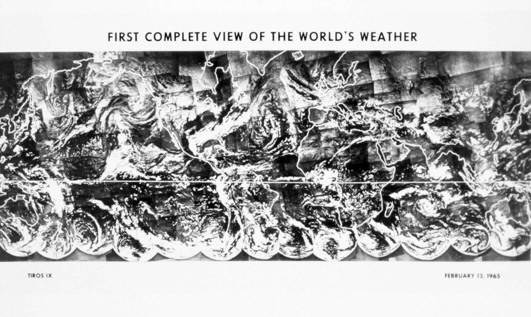 First complete view of the World's Weather - photogaphed by TIROS IX. Image assembled from 450 individual photographs.